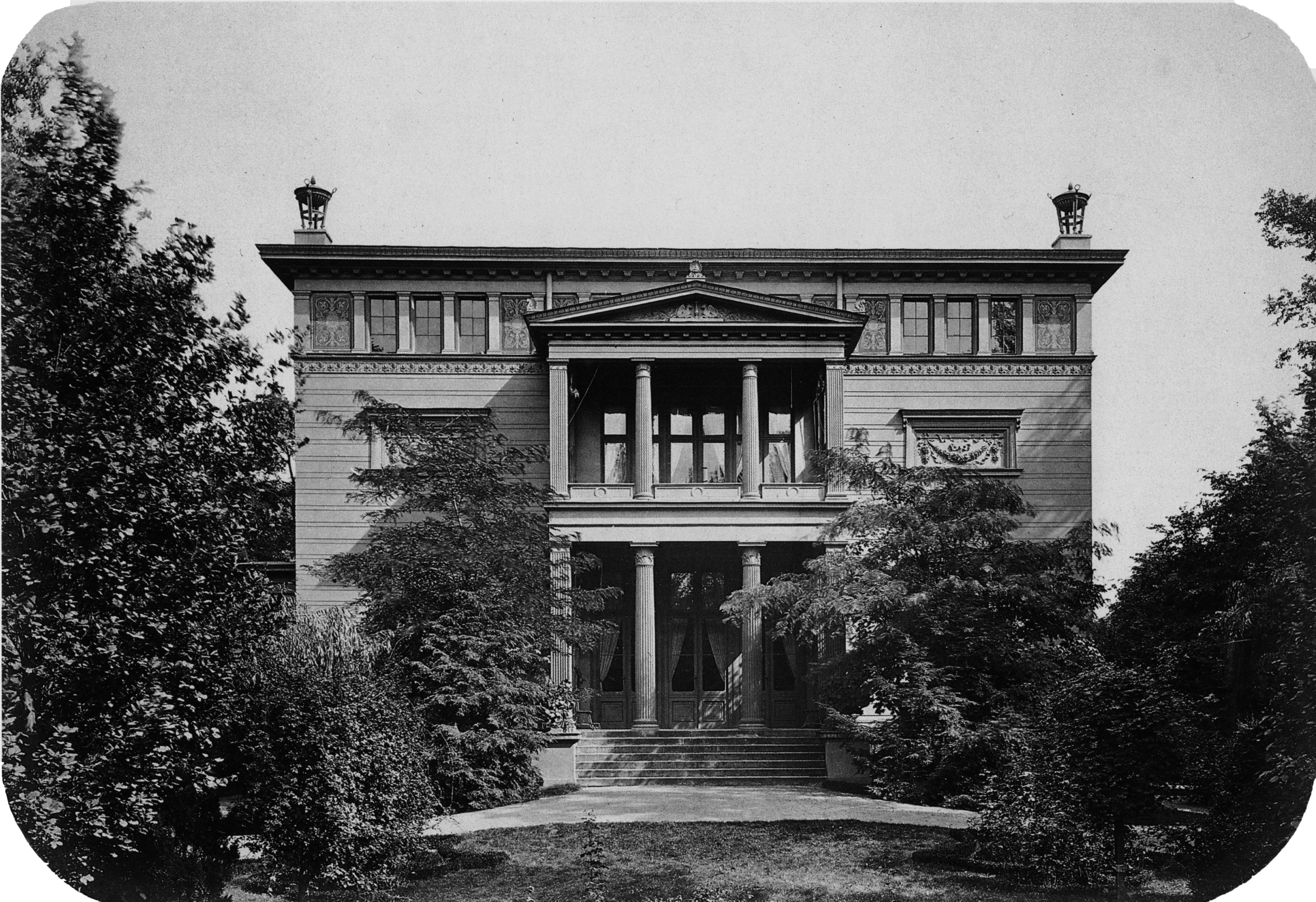 The “Bleichröder villa” at the square Am Knie (now Ernst-Reuter-Platz) in the city of Charlottenburg, now part of Berlin.